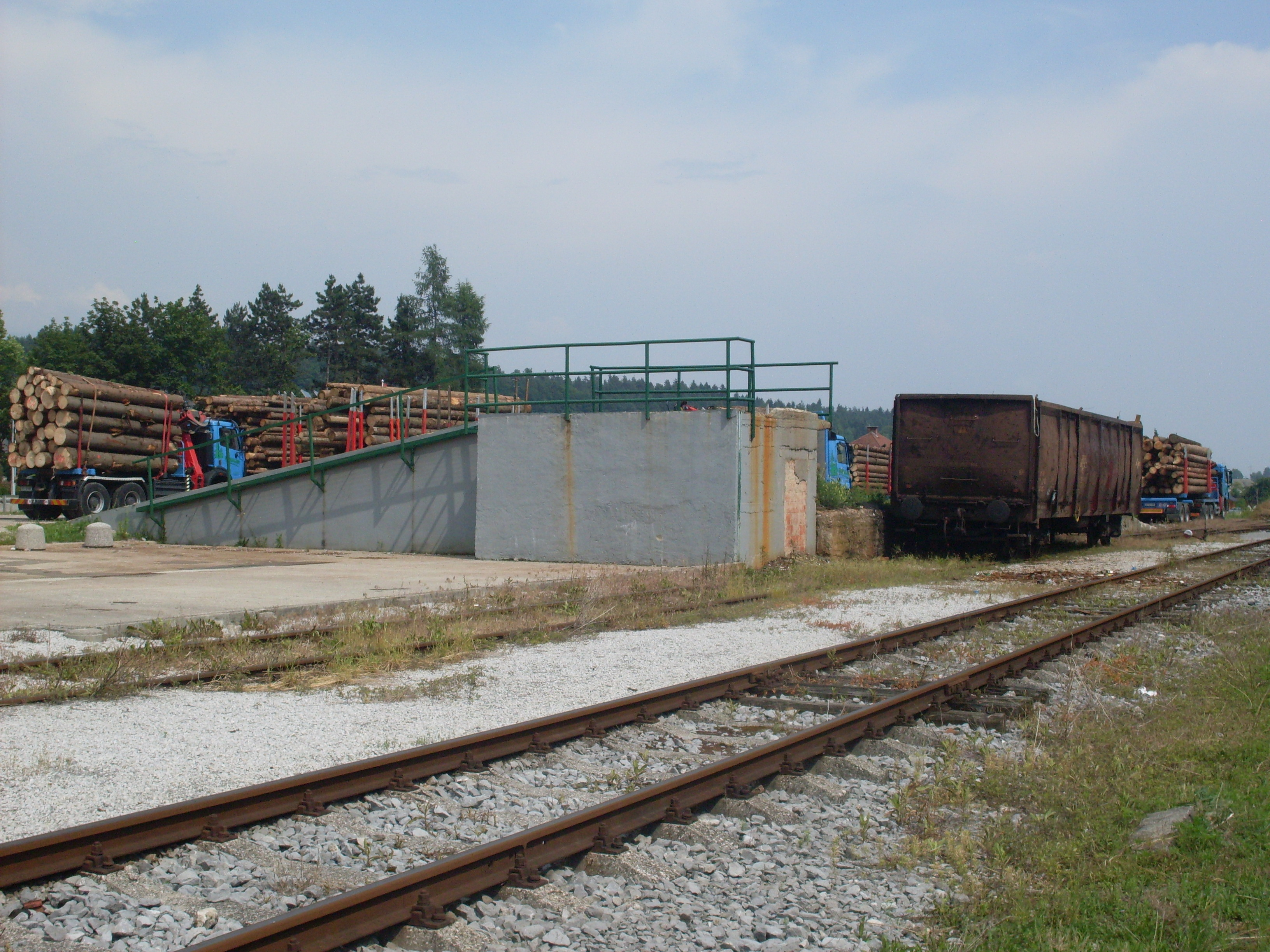 Loading ramp of the Naklo train stationSlovenščina: Nakladalna rampa na železniški postaji (nakladališču) v Naklem